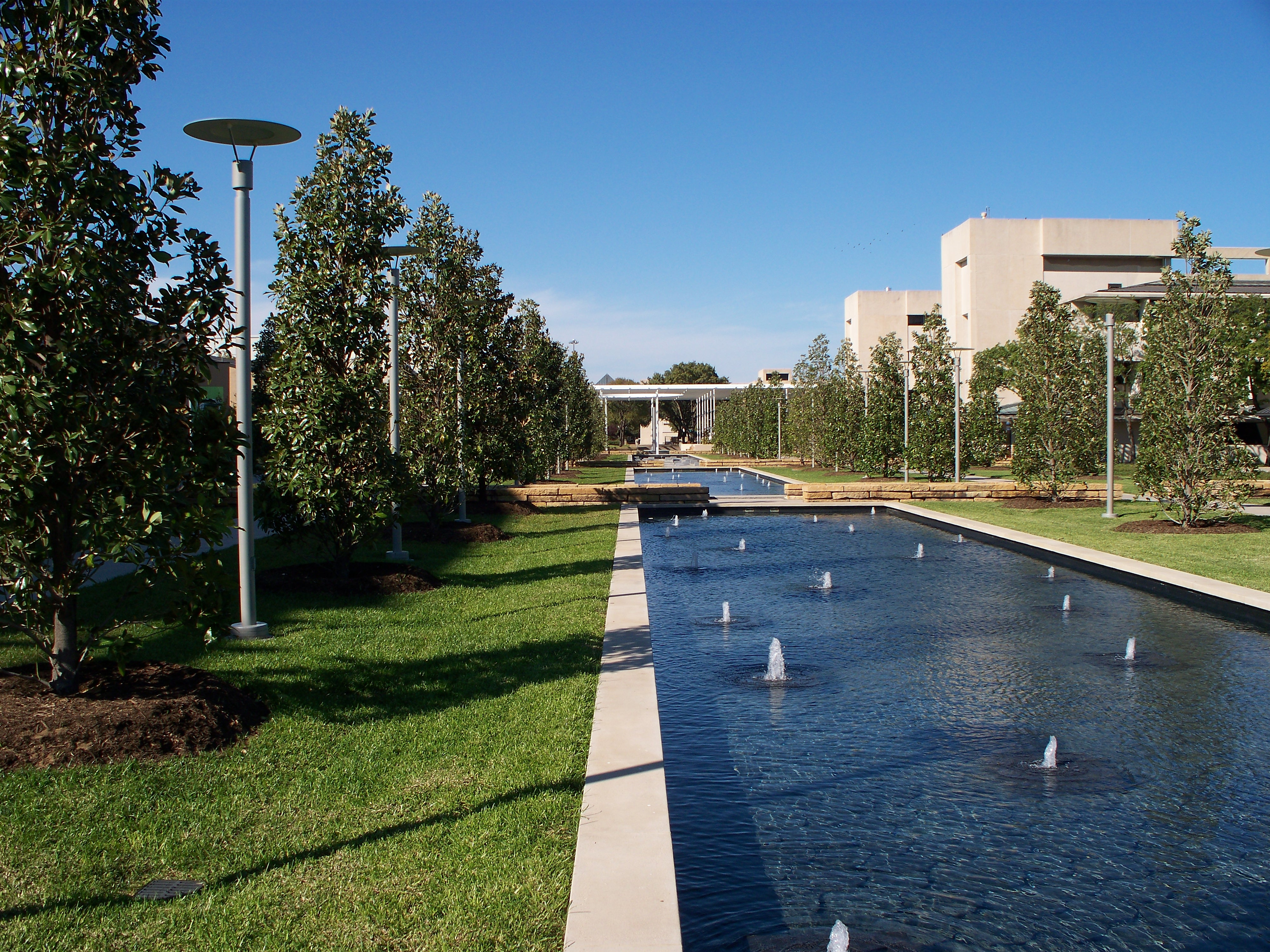 UT Dallas main mall